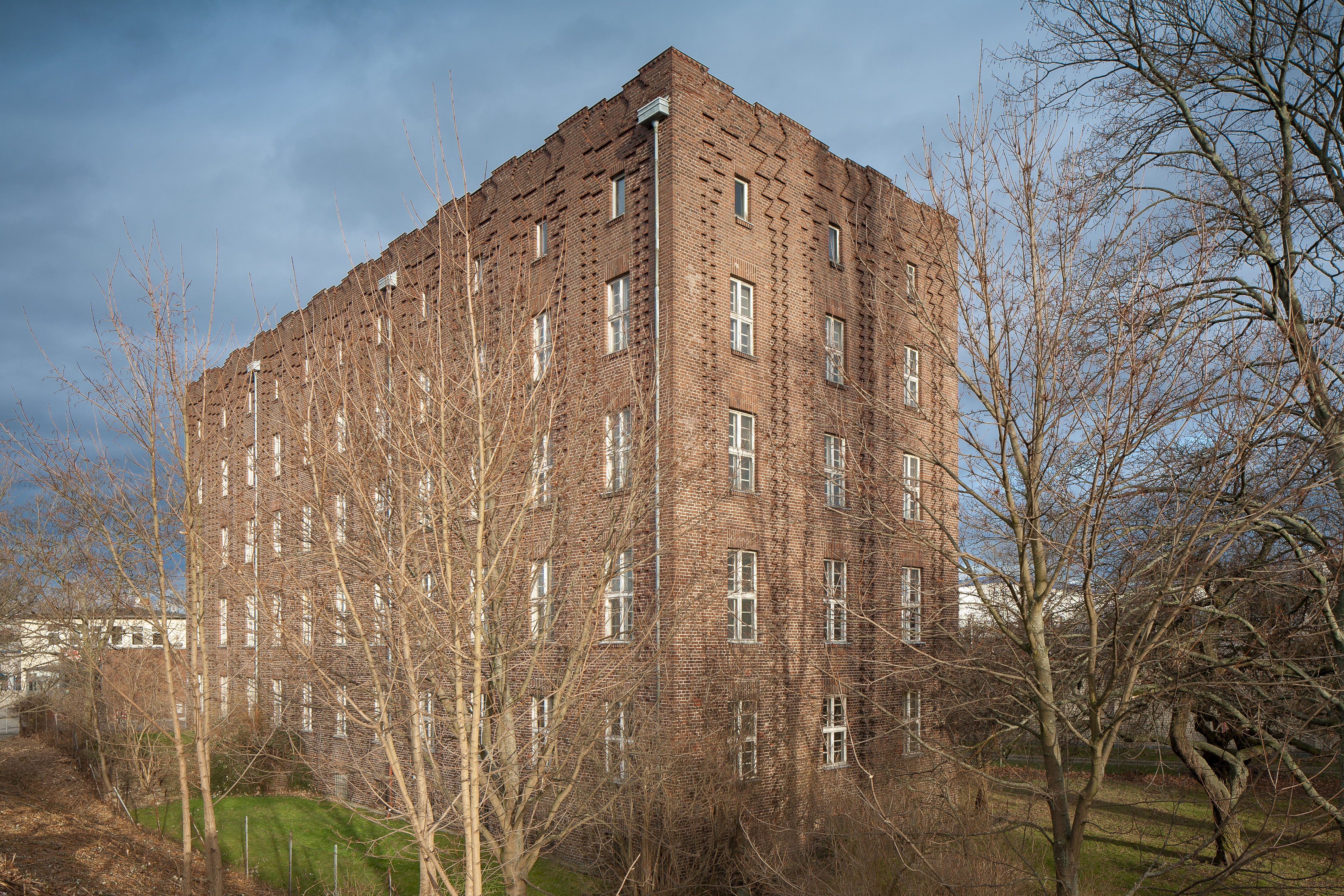 Former administration building located in Beneckeallee, Hanover, Germany. The architect was Hans Poelzig.